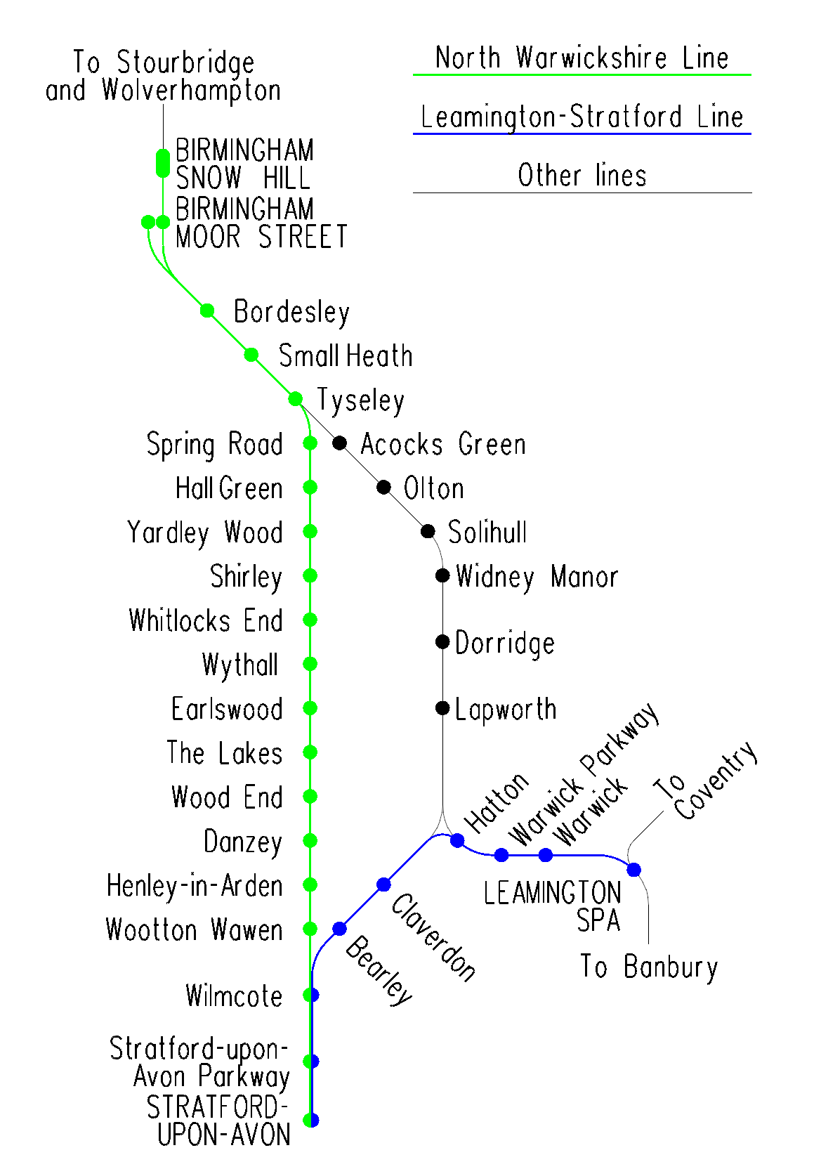 Diagrammatic map of the North Warwickshire and Leamington to Stratford lines; image created using MicroStation and exported as a png file.